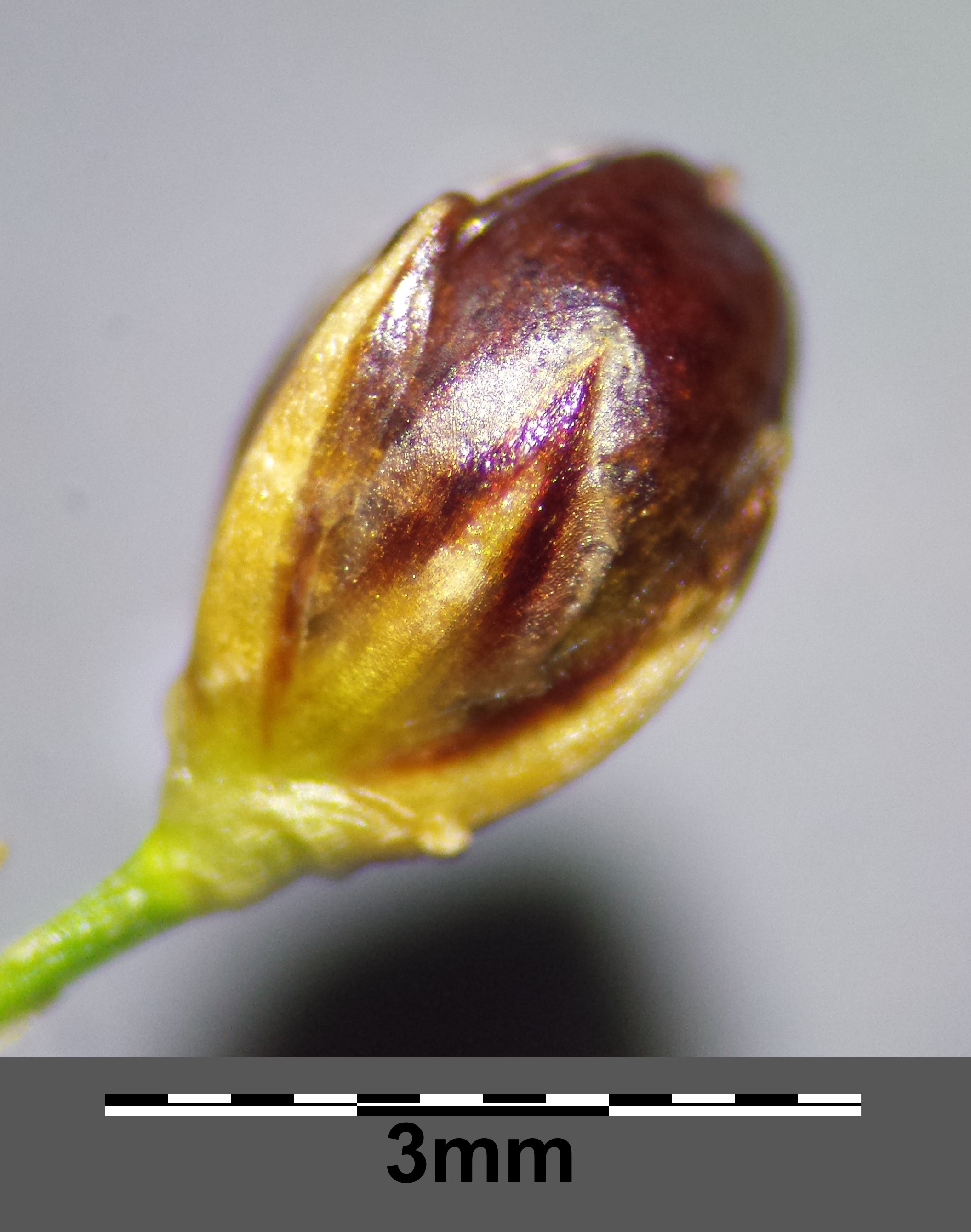 Fruit Taxonym: Juncus compressus ss Fischer et al. EfÖLS 2008 ISBN 978-3-85474-187-9 Location: Donaupark, Vienna-Donaustadt - ca. 160 m a.s.l. Habitat: shore of a pond